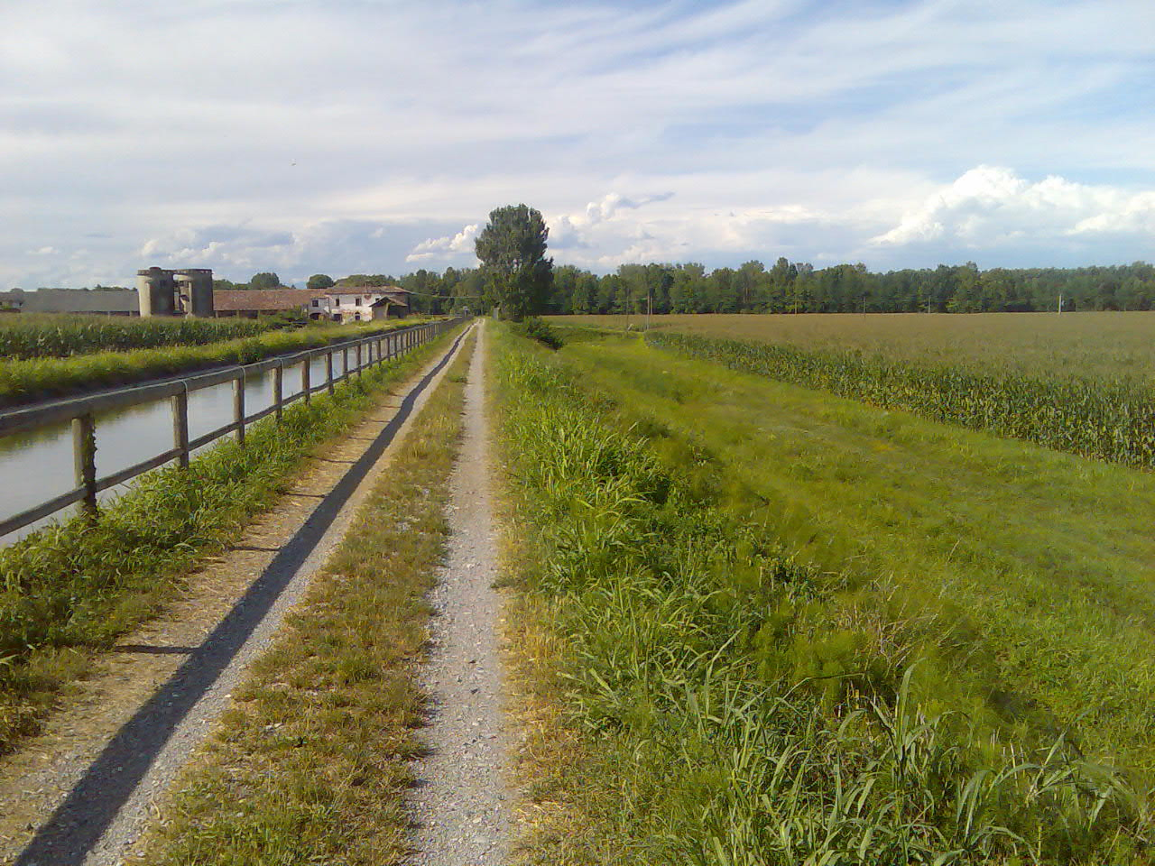 Padan Plain: summery panorama of the country north of Soresina, province of Cremona. The unpaved road at the side of the canal is part of the Ciclabile delle Città Murate cycleway.